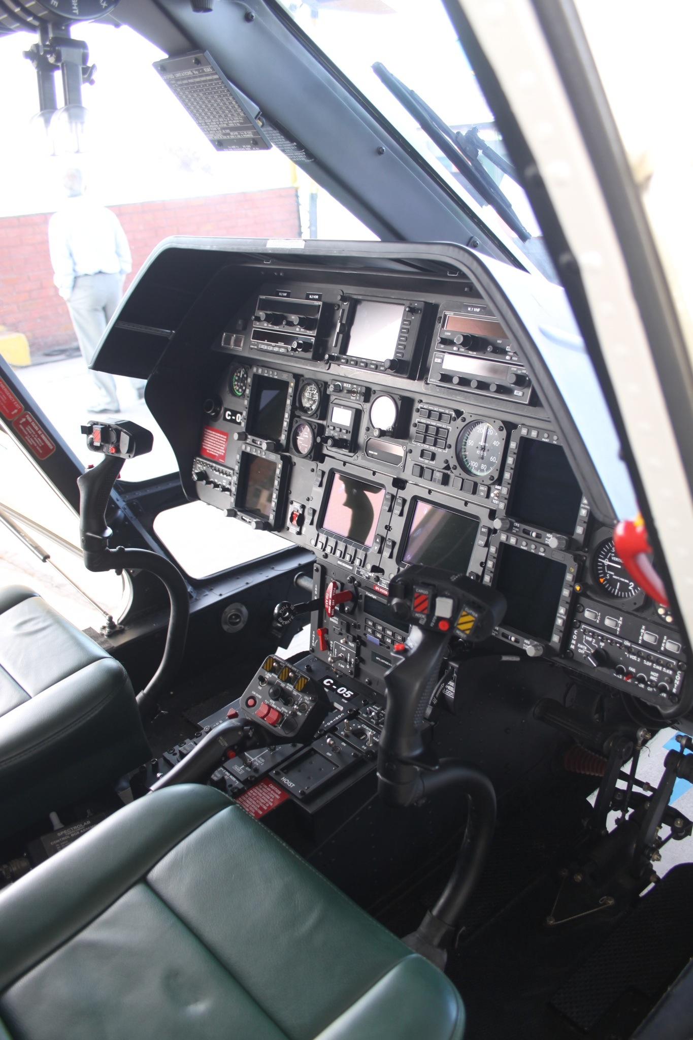 At Tobalaba